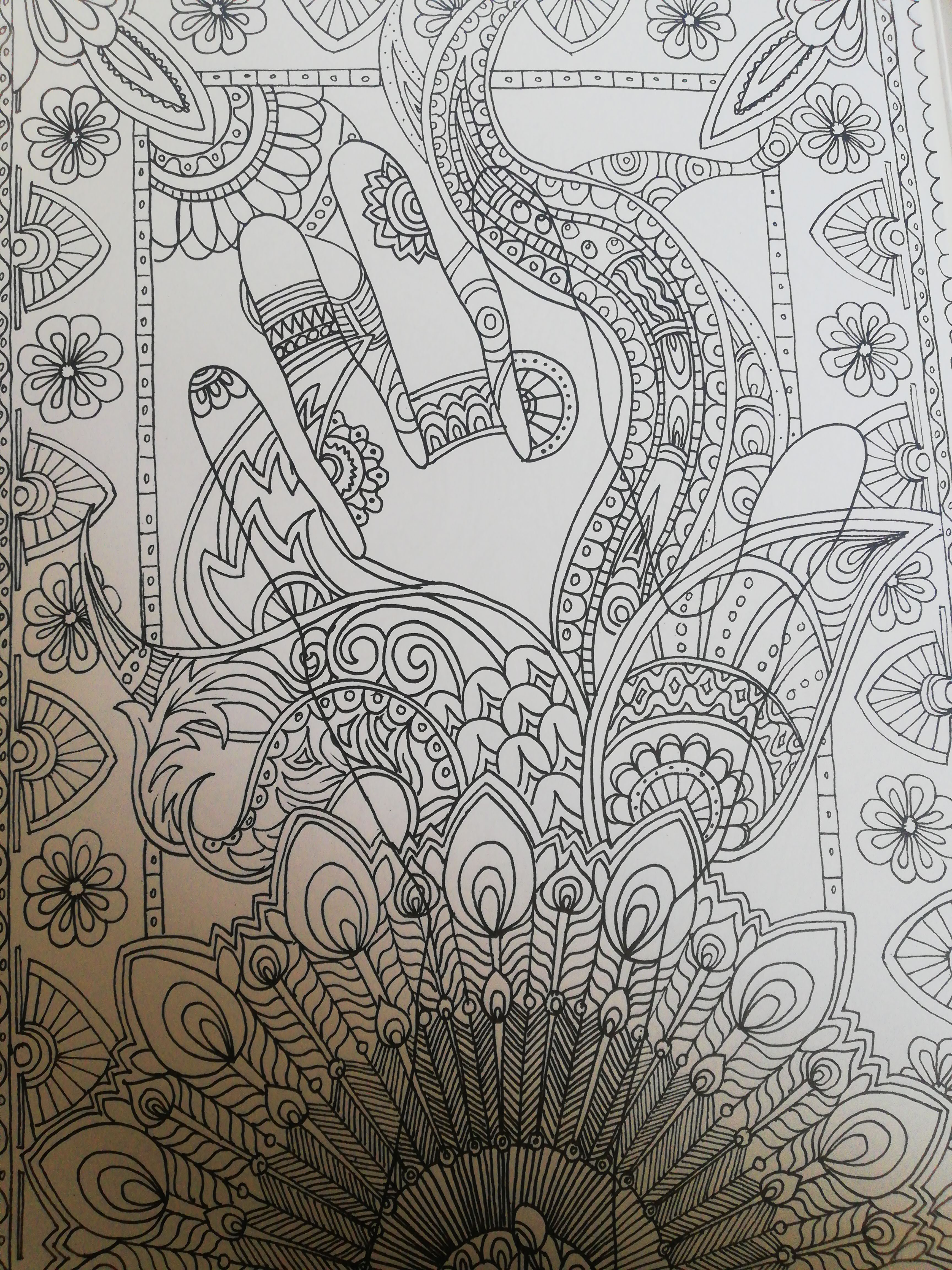 Mandala Coloring Sheet